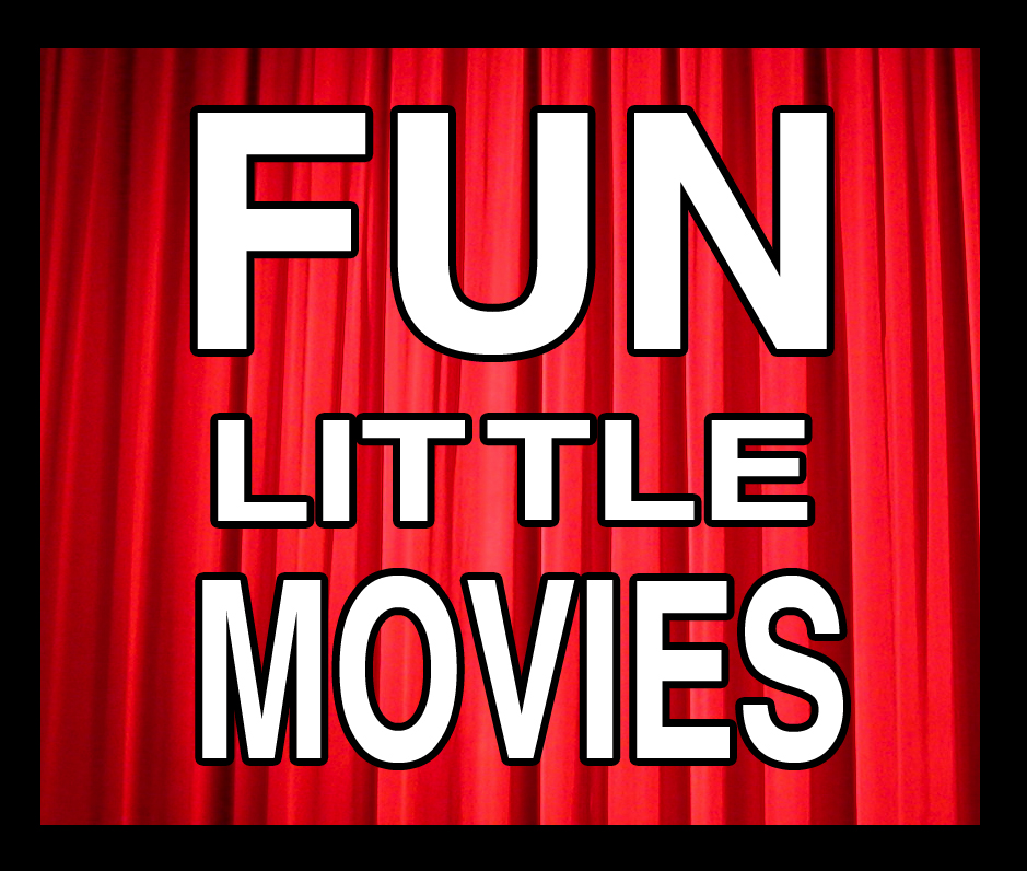 Fun Little Movies Logo